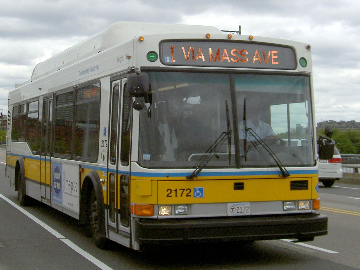 An MBTA bus on the #1 route, headed across the Harvard Bridge on Massachusetts Avenue on its way from Dudley to Harvard.